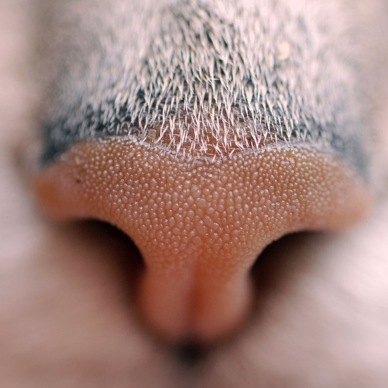 A cat's nose